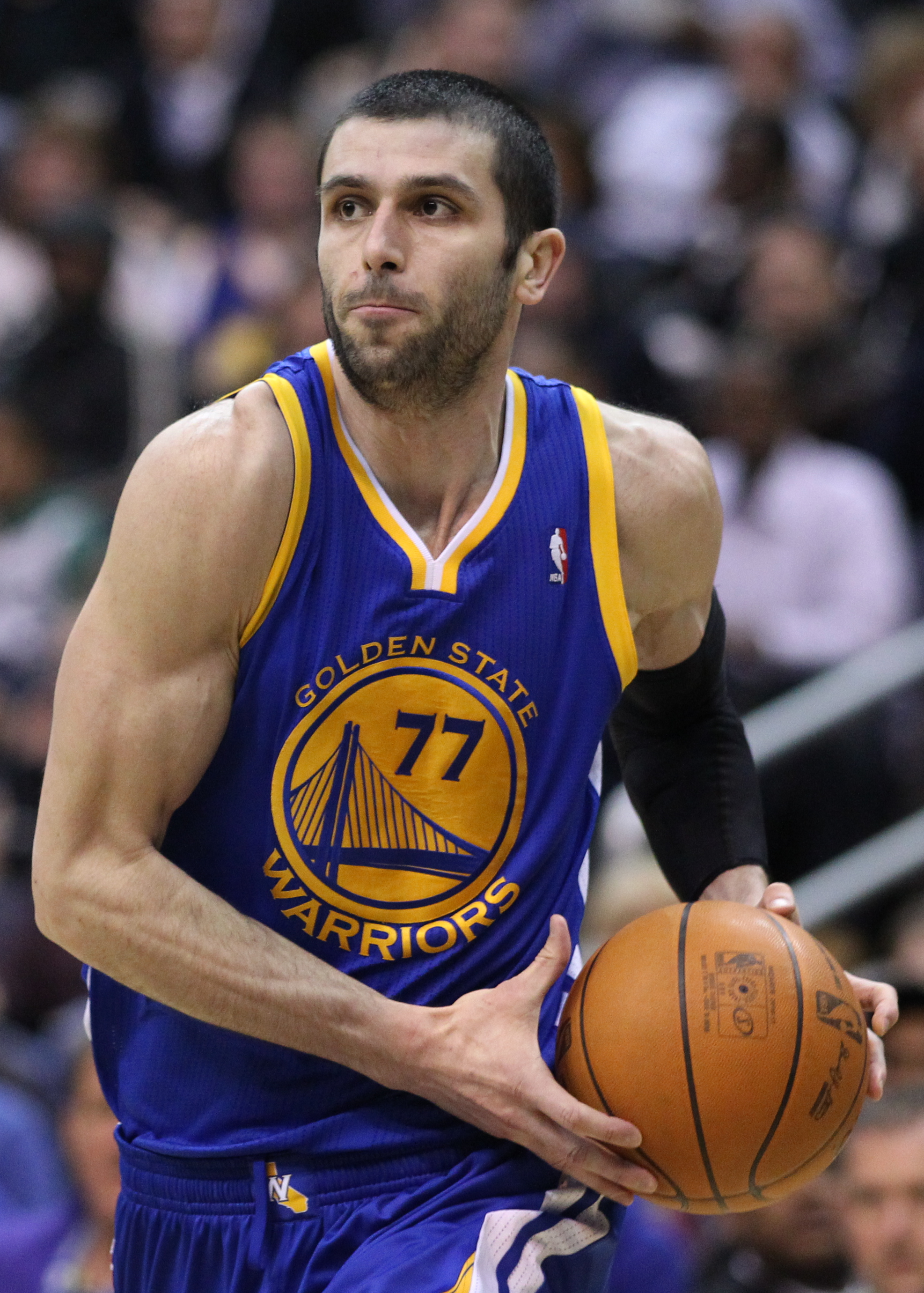 Wizards v/s Warriors 03/02/11